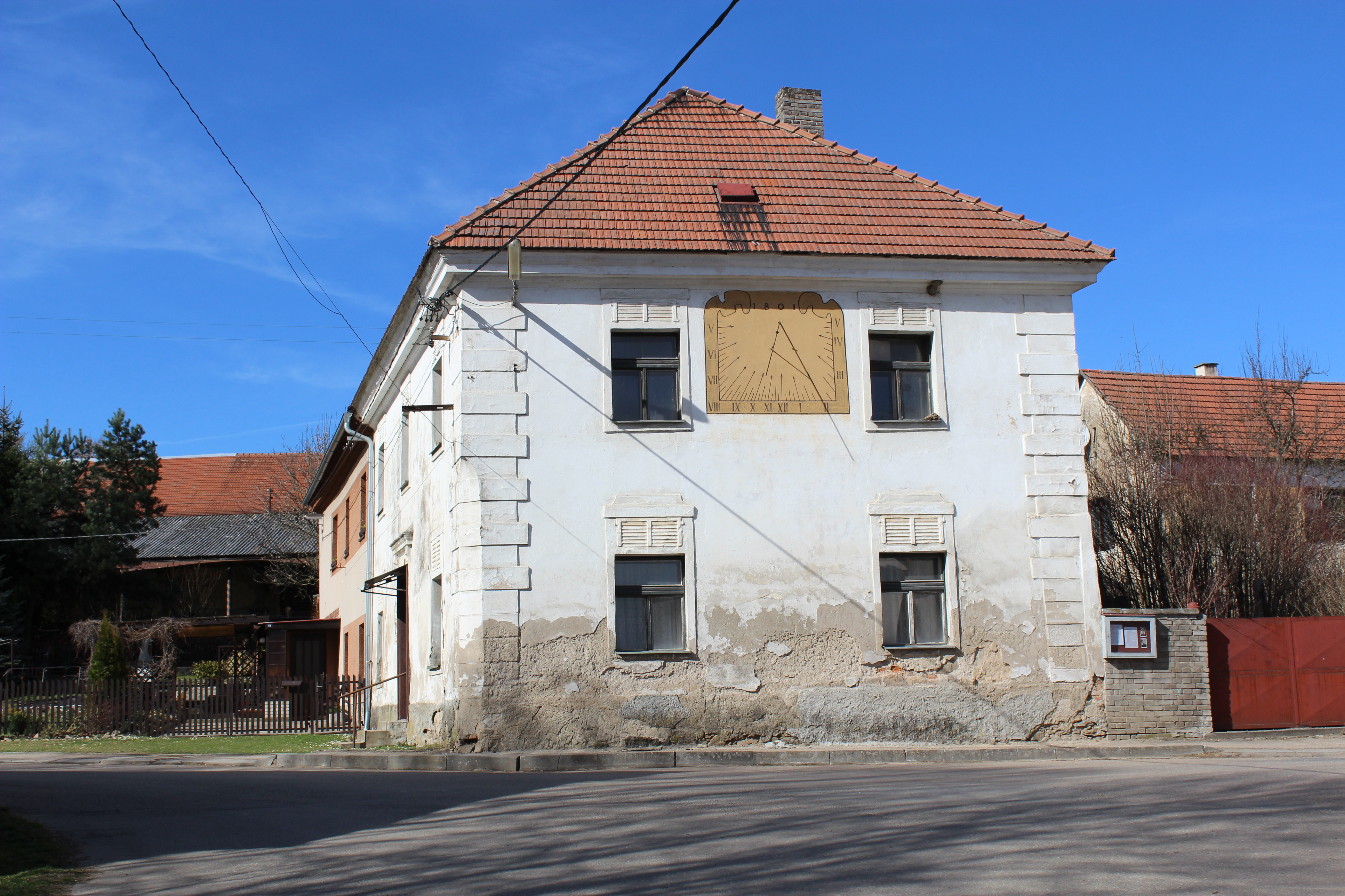 Former farmyard Popovice (Benešov District).House no. 2 (white) with a sundial and house no. 94.